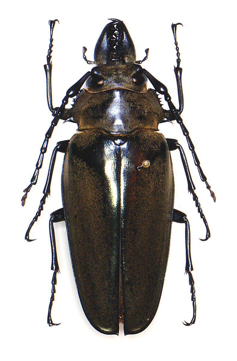 A large trictenotomid beetle, Autocrates vitalisi Vuillet, 1912, collected in Malaysia: Pahang: Cameron Highlands, Jan. 1985.